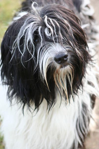 Nederlandse Schapendoes / Dutch Sheepdog